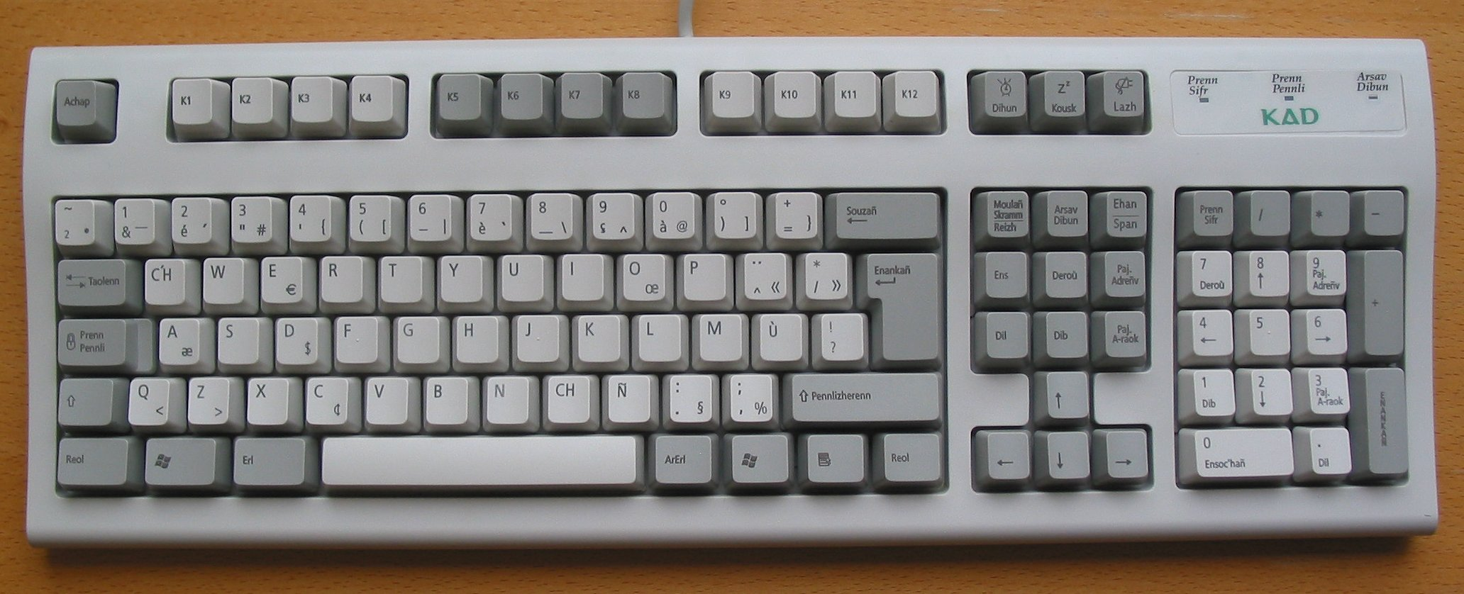 Breton C'HWERTY keyboard.